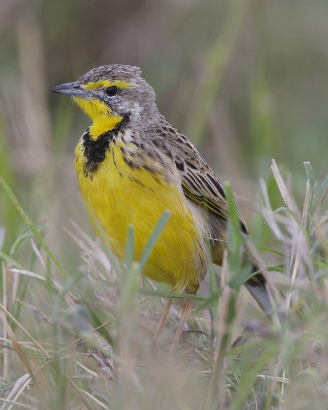 Yellow-throated Longclaw (Macronyx croceus) in Masai Mara, Kenya, 690V0993